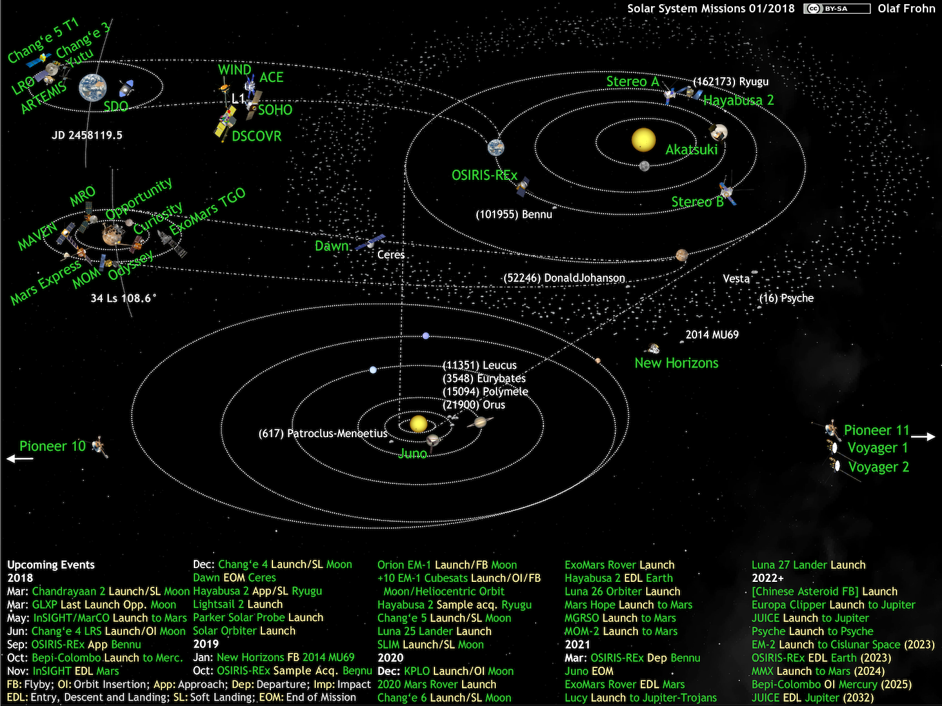 A diagram of active space missions traveling beyond Earth orbit, January 2018.